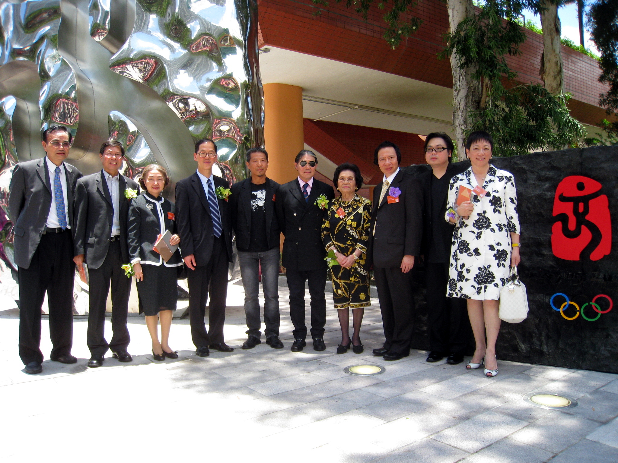 VIP Guests of City Art Square Opening Celemony